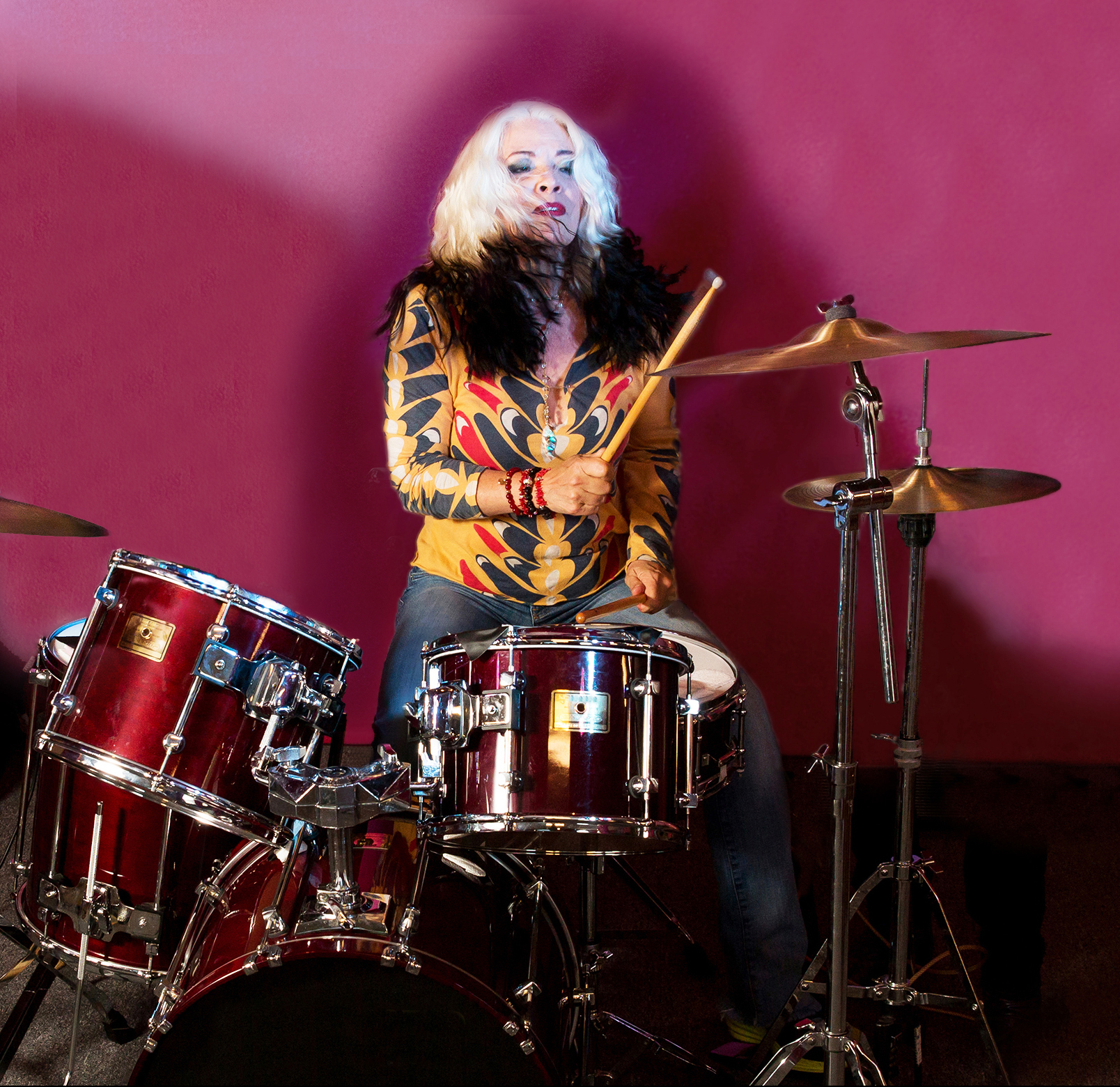 Brie Darling playing drums, pink background